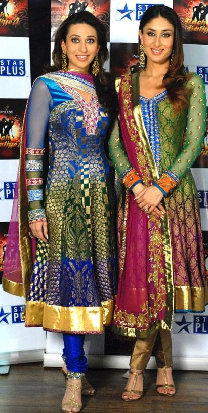 Indian actress Kareena Kapoor with sister Karisma Kapoor on the sets of Nach Baliye.